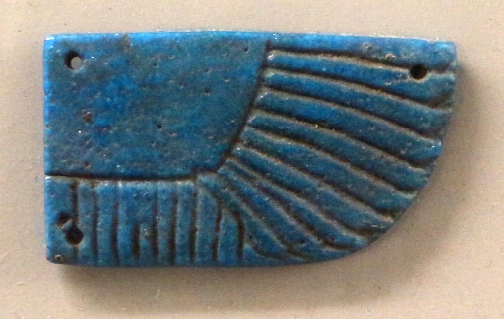 Egyptian Museum (Milan)